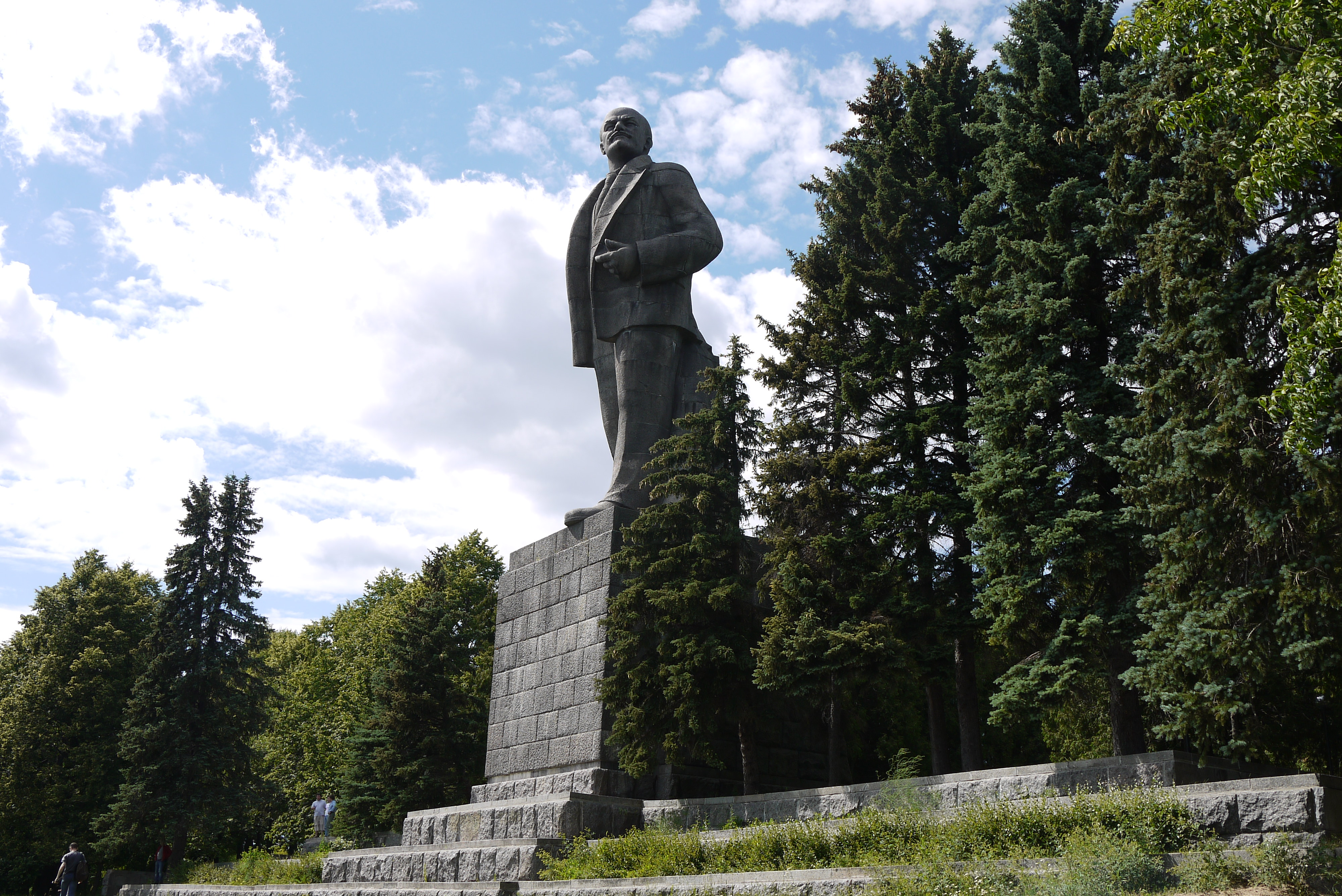 One of the world's tallest statue of Vladimir Lenin, 25-meter (82 ft) high, built in 1937, is located in Dubna at the confluence of the Volga and the Moscow Canal.